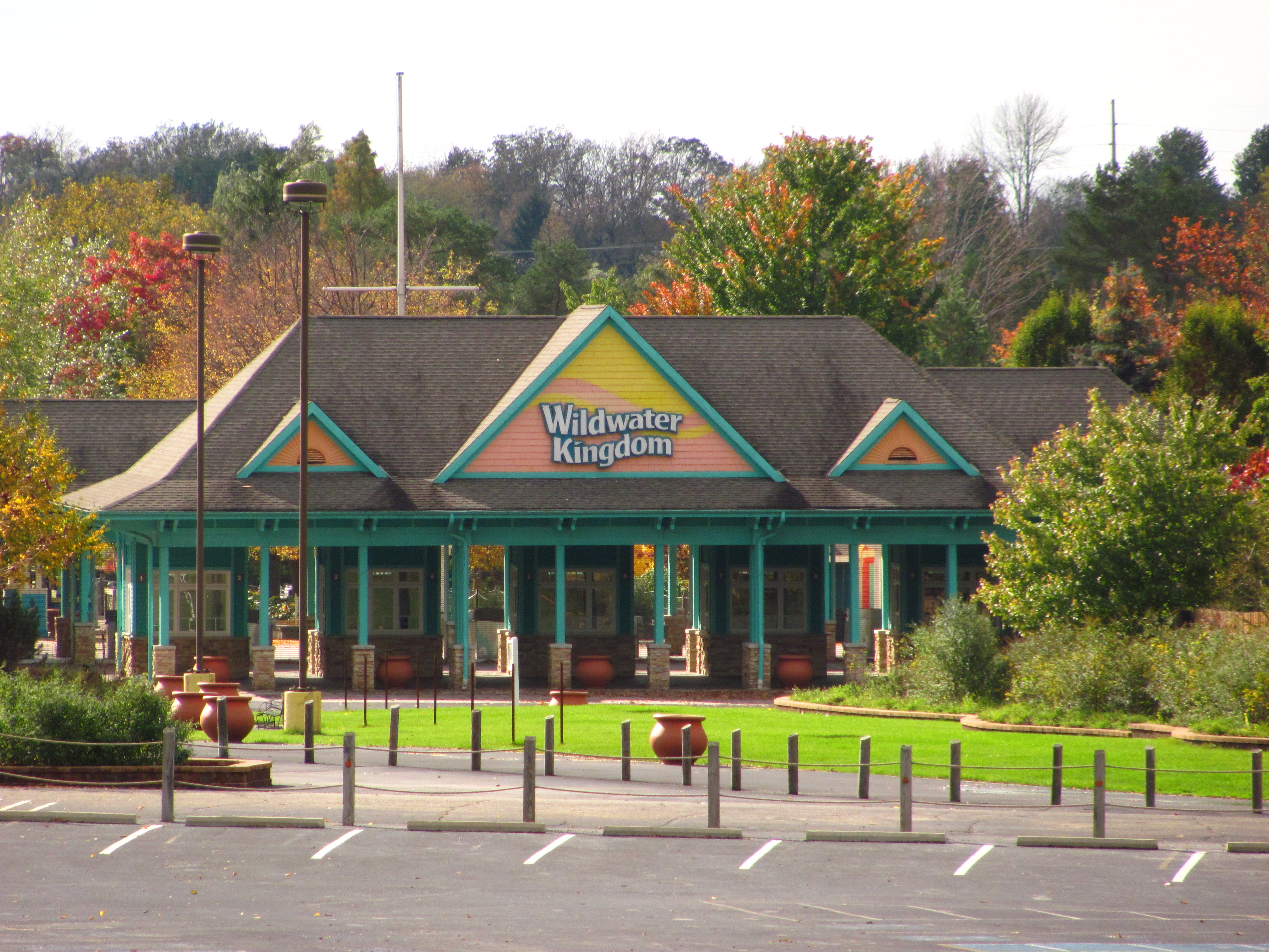 The entrance to Wildwater Kingdom in Aurora, Ohio.